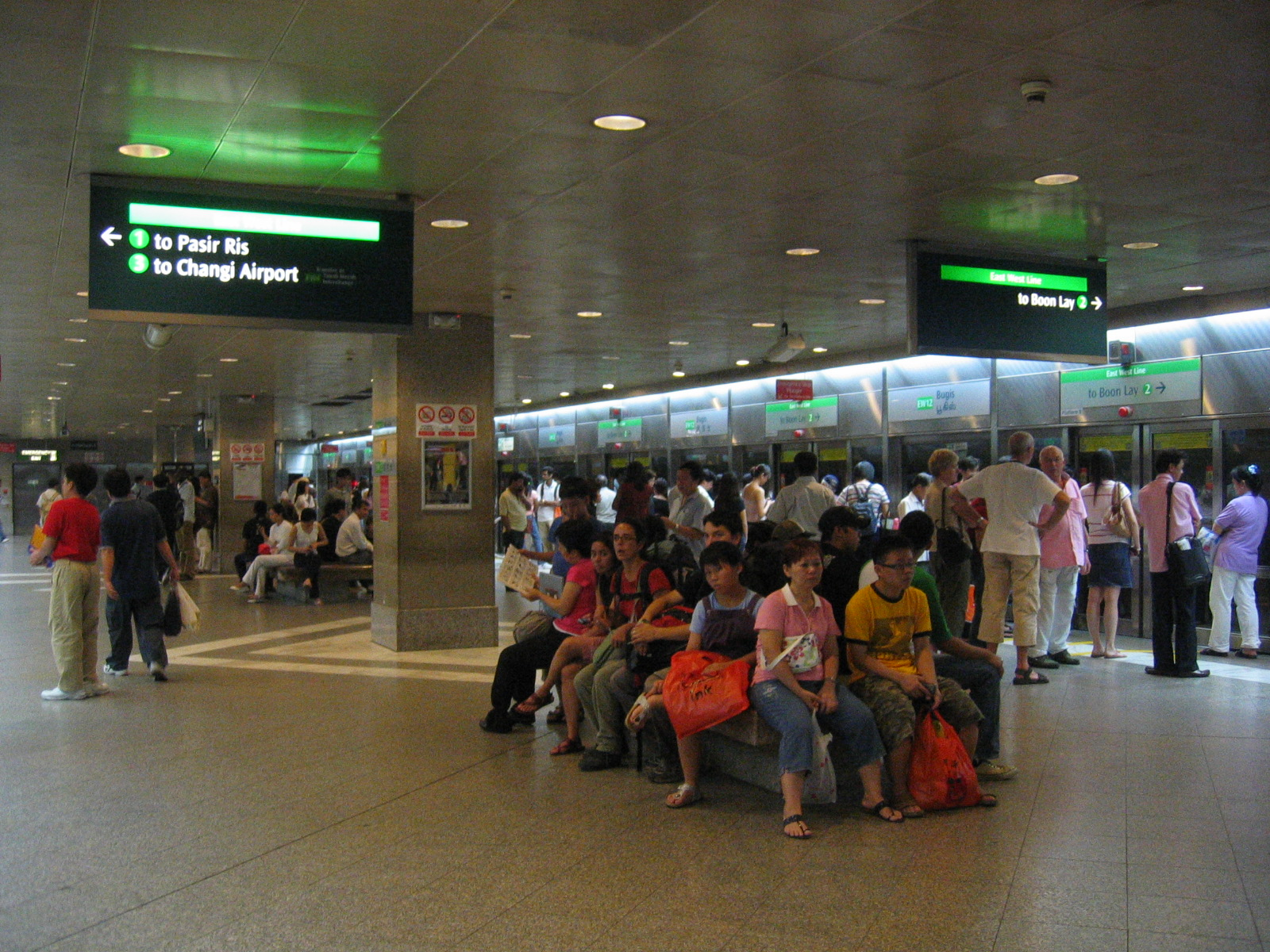 Bugis MRT Station.